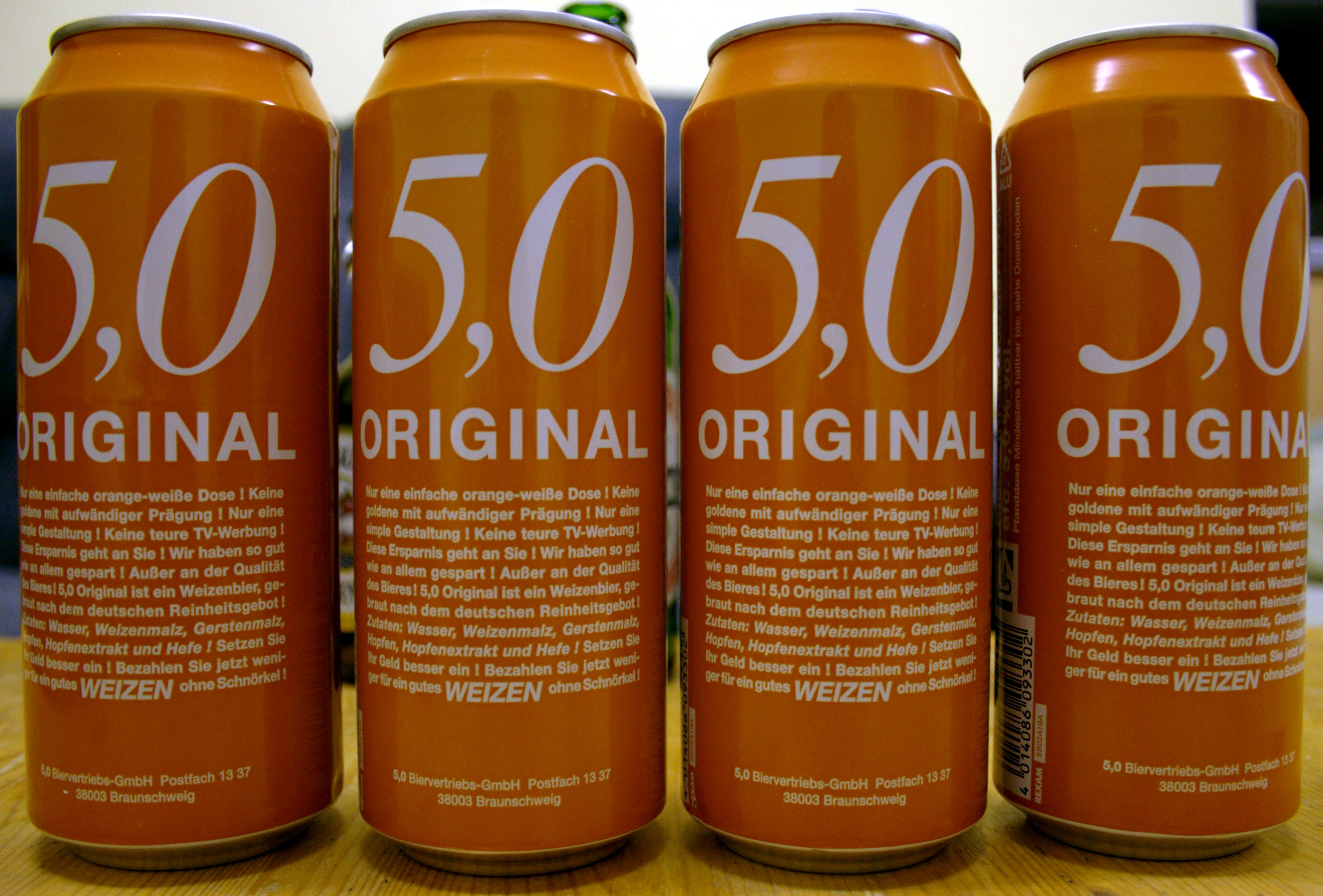 German beer cans of the brand "5,0 Original" containing Weizen Beer.